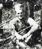 Anton Marincelj-Janko (1917-1943), Slovene partisan